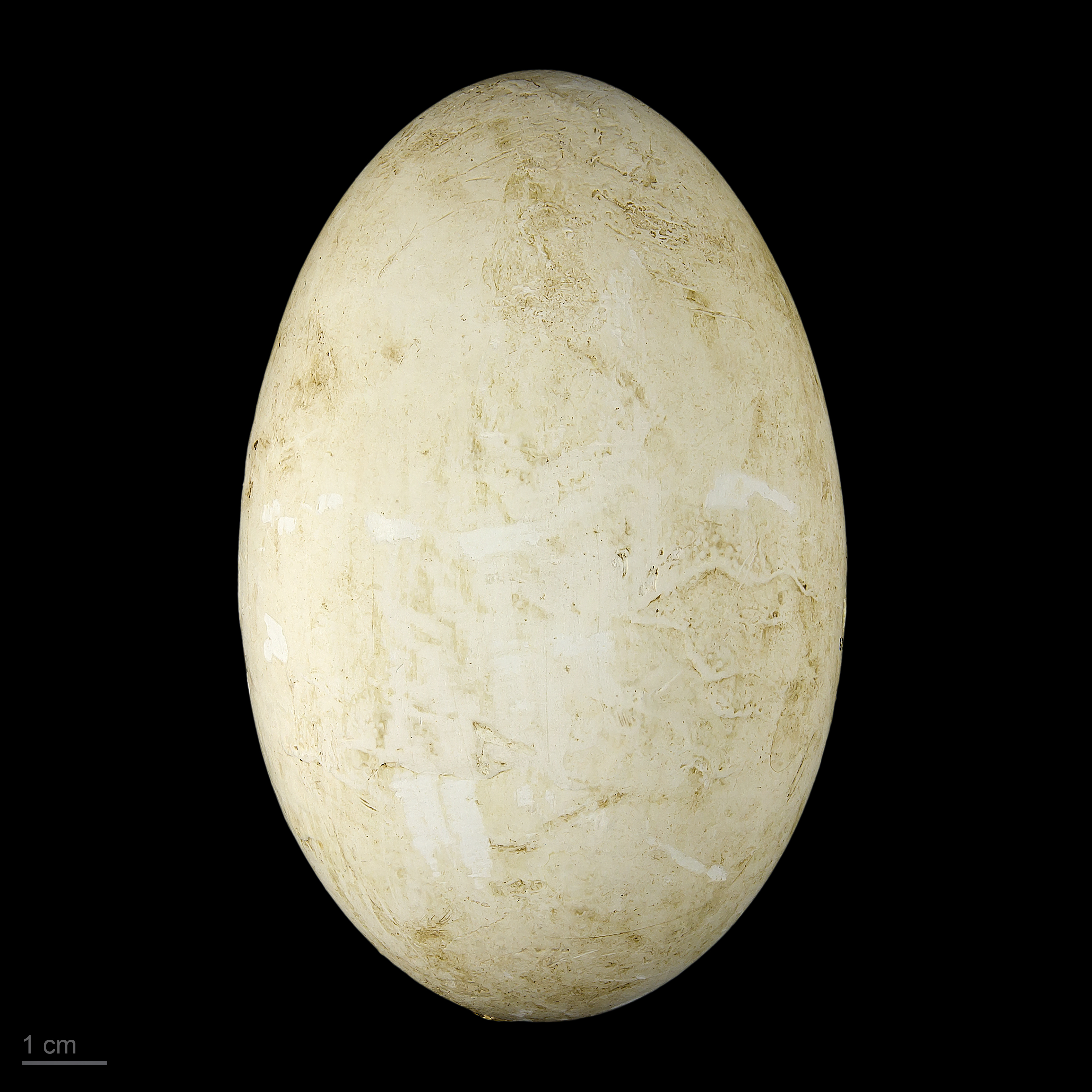 Eggs of Dalmatian pelican collection of Jacques Perrin de Brichambaut.